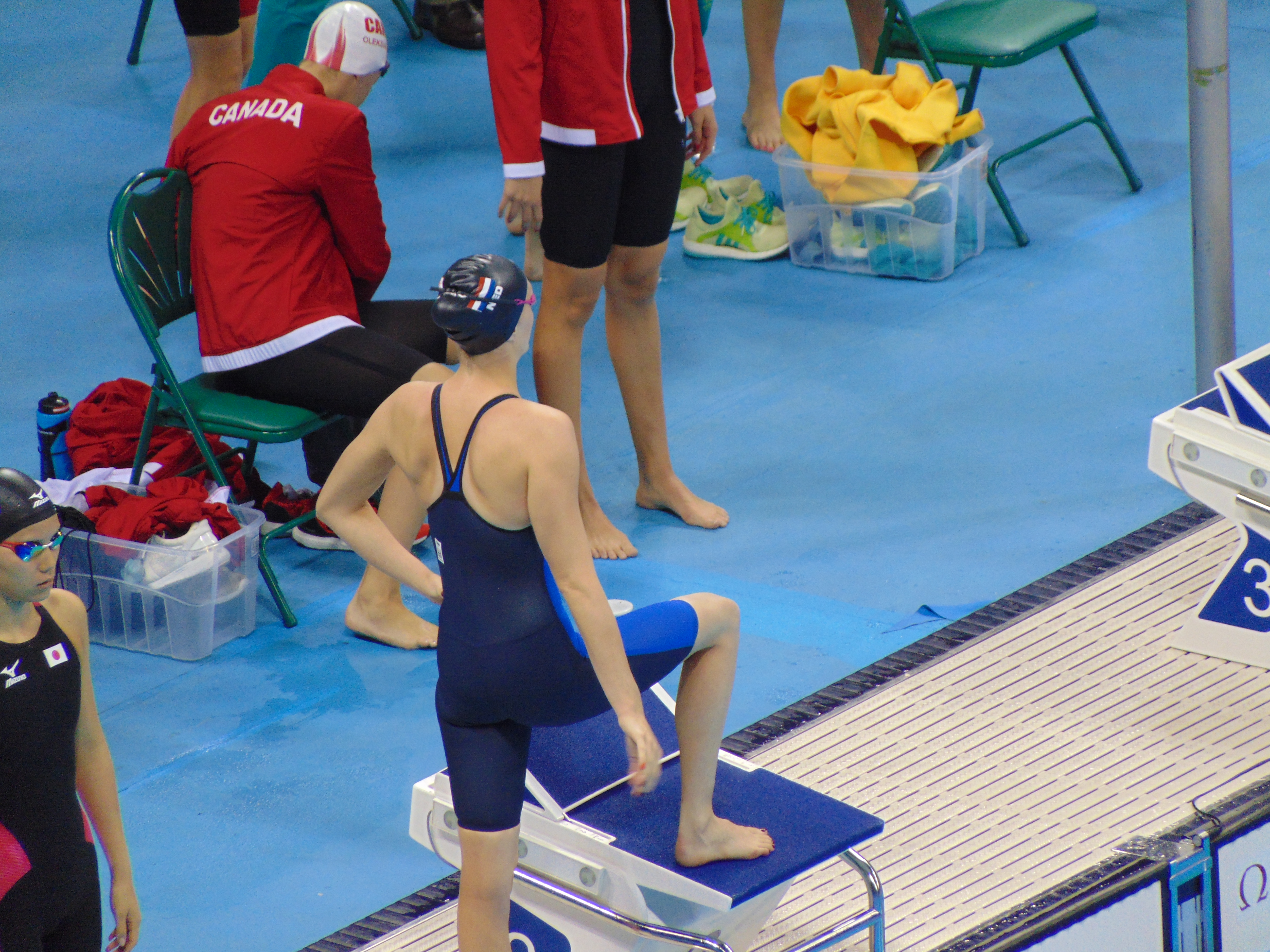 Rio 2016 - Swimming final session 6 August (SW002)